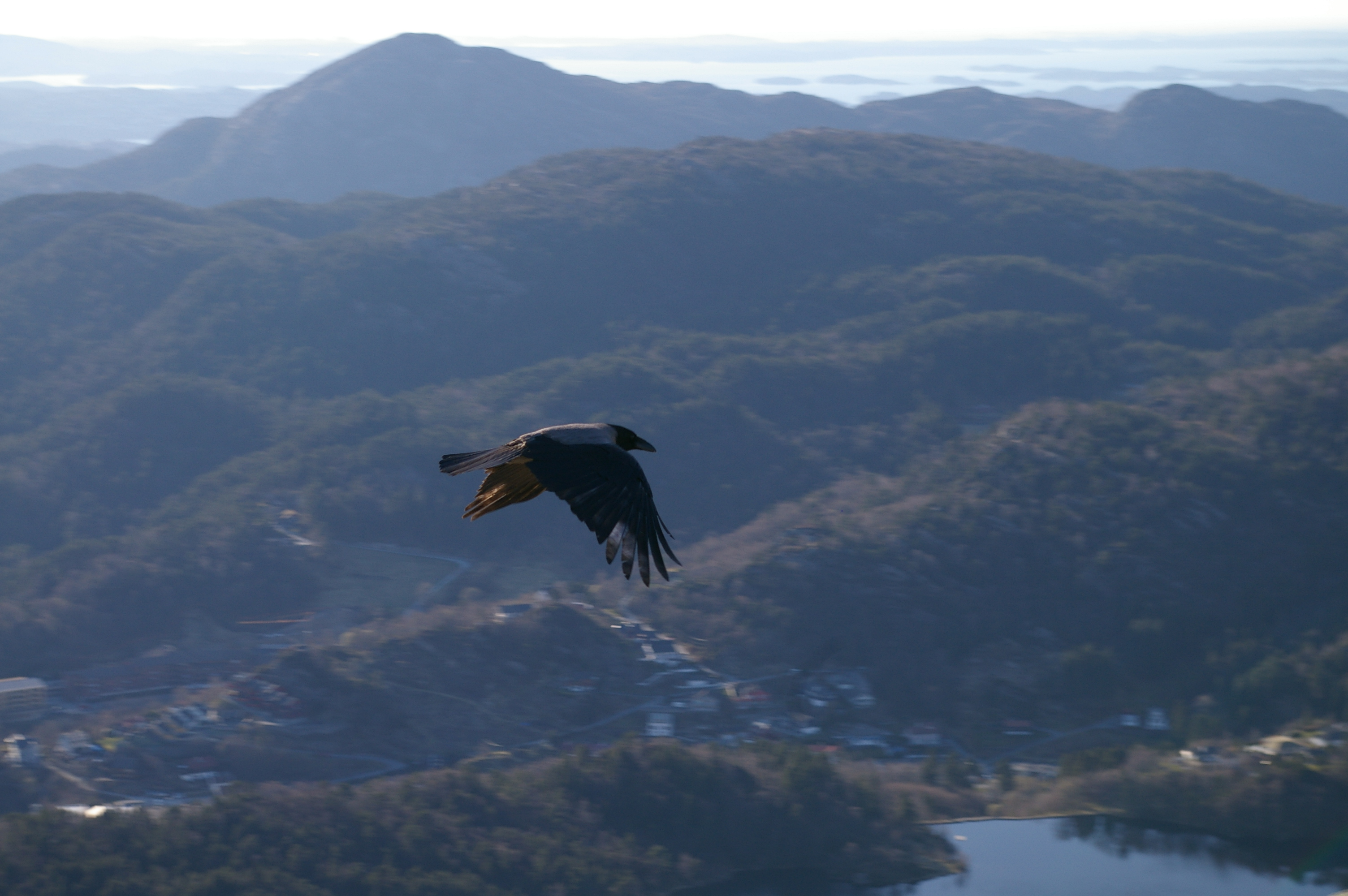 Crow in flight at Løvstakken in Bergen, Norway. Lyderhorn is seen in the background